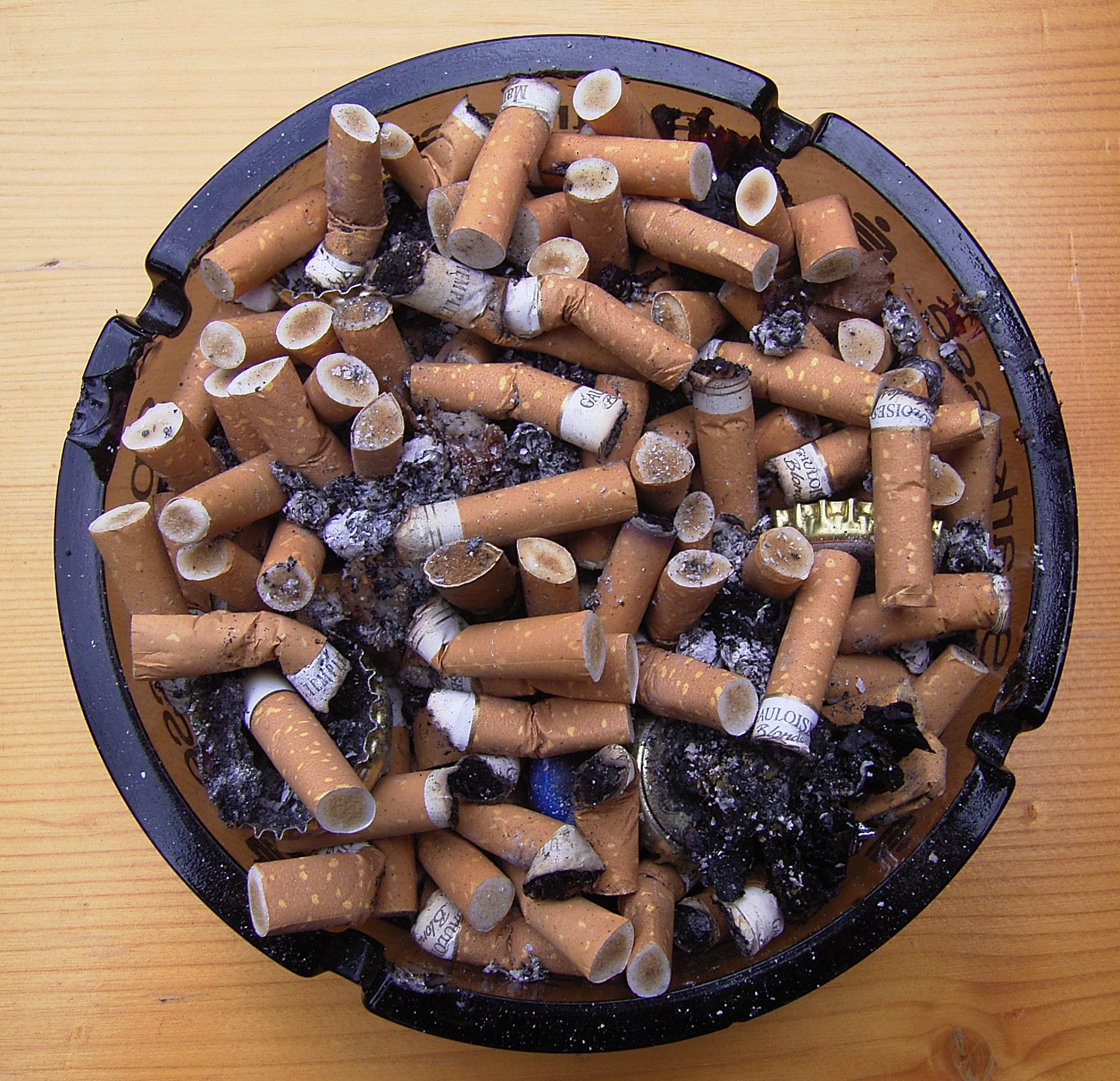 A "well" filled Ashtray